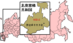 北奥塞梯共和国别斯兰市位置图，原稿来自英文维基百科，Mountain汉化. 英文版的上載紀錄： * (del) (cur) 04:21, 4 September 2004 . . Cantus (Talk) . . 300x178 (10389 bytes) (renamed as North Ossetia) * (del) (rev) 23:28, 3 September 2004 . . ChrisO (Talk) . . 300x178 (12551 bytes) (Further modification of RussiaNorthOssetia-Highlight.png to make text clearer) * (del) (rev) 23:26, 3 September 2004 . . ChrisO (Talk) . . 300x178 (11718 bytes) (Further modification of RussiaNorthOssetia-Highlight.png to make text clearer) * (del) (rev) 21:30, 3 September 2004 . . Cantus (Talk) . . 300x178 (11718 bytes) (Modification of RussiaNorthOssetia.Highlight.png and Beslan-location.png) Image:RussiaNorthOssetia-Highlight.png